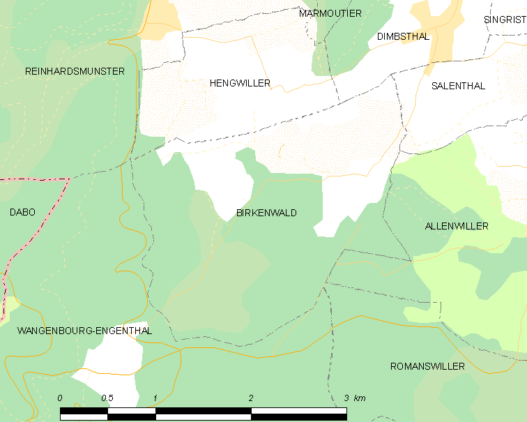 Map of French municipality